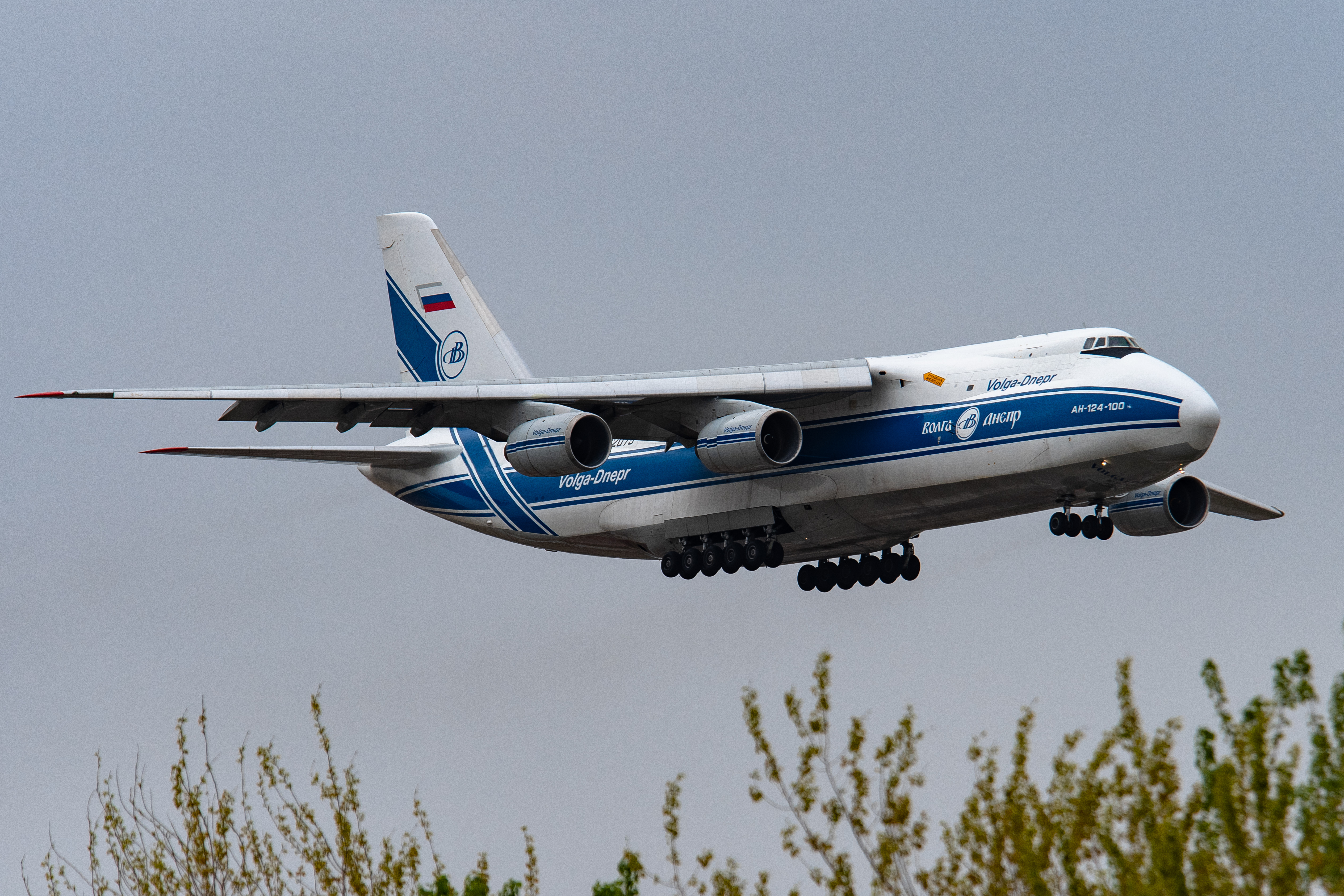 VDA2944 from Xichang, approaching to 36R.